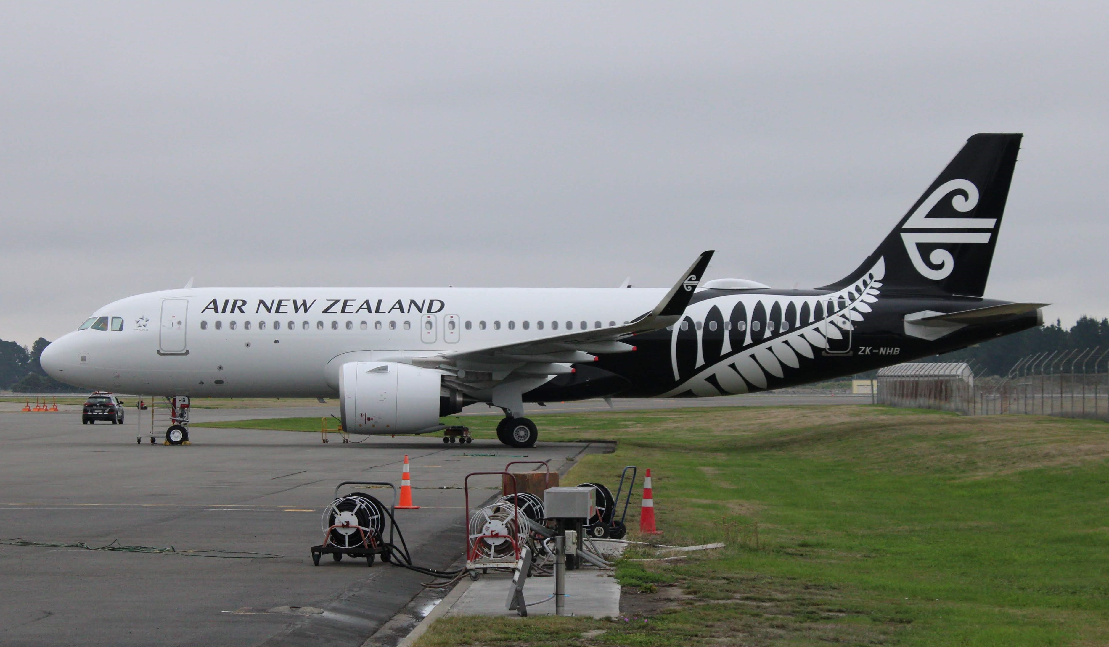 Air New Zealand second registered third delivered Airbus A320neo registration ZK-NHB at Christchurch Airport